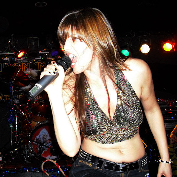 Deb Obarski performing with The Iron Maidens. Photo taken on December 13, 2008 at Paladino's, Tarzana, CA, by Jeremy of Area Seven Productions.